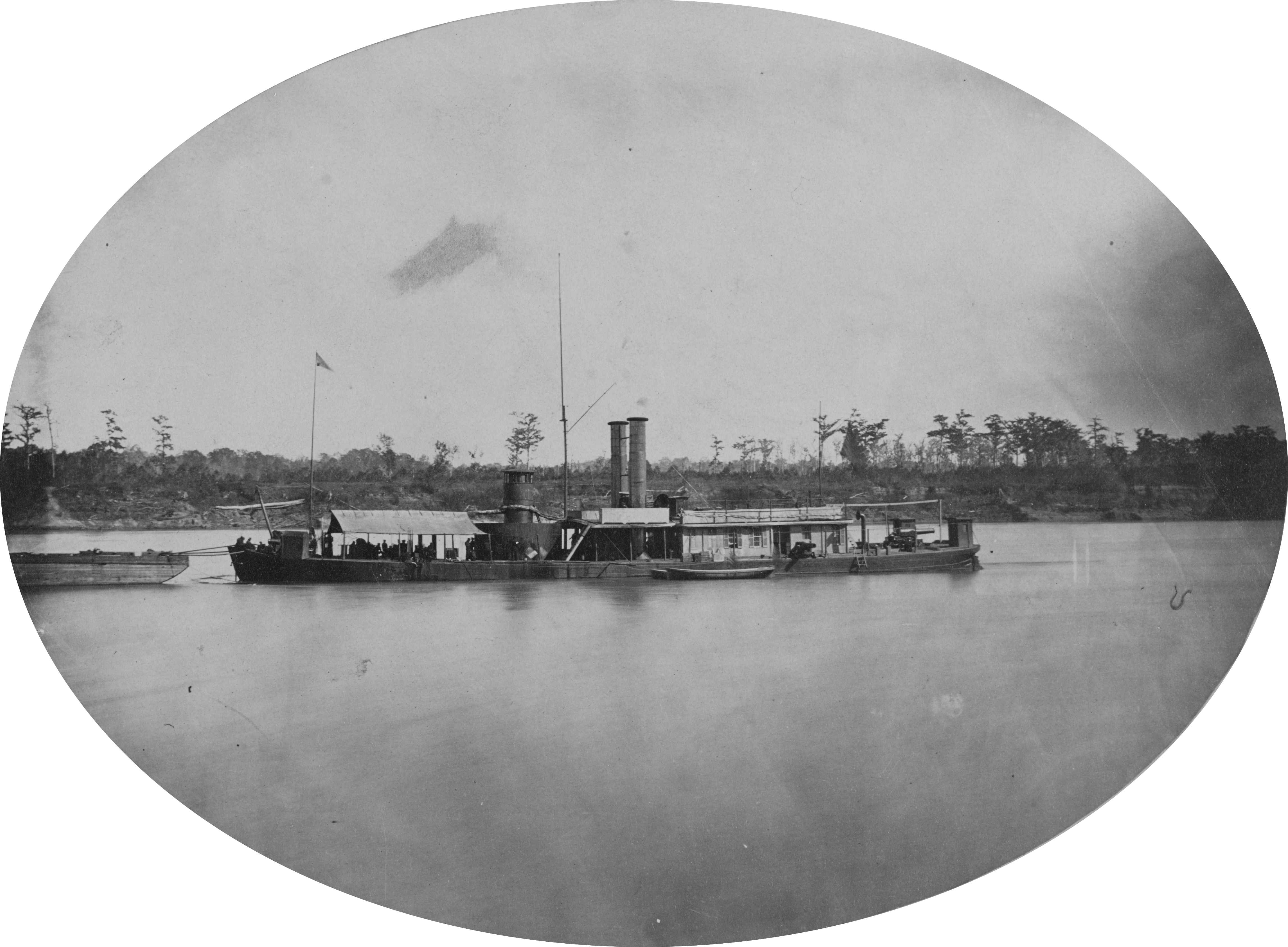 Photographed while serving with the Mississippi Squadron in 1864-1865. U.S. Naval History and Heritage Command Photograph.